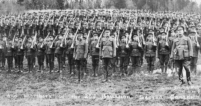 The officers and members of the 26th Battalion of the Second Canadian Expeditionary Force prior to embarking for Europe, Saint John, 1915.